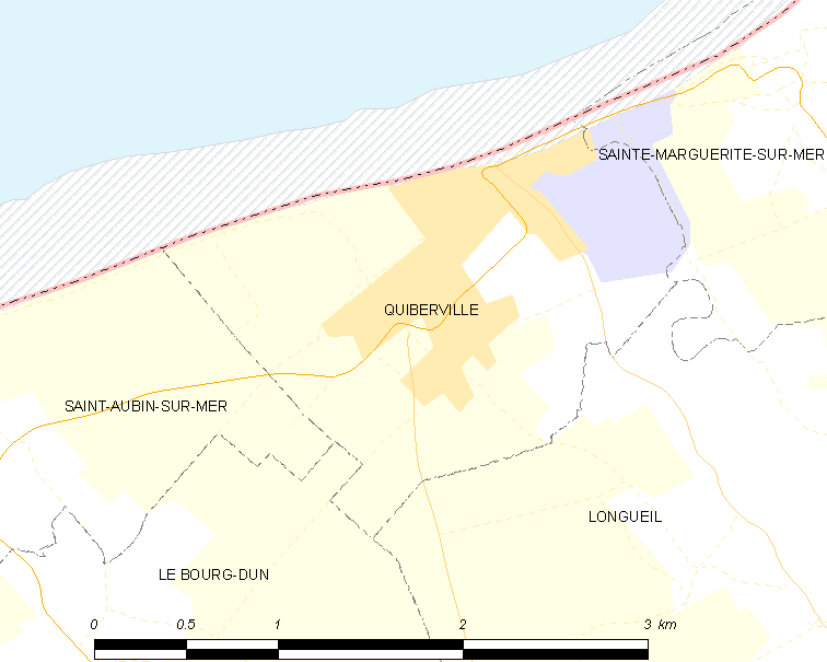 Map of French municipality Quiberville